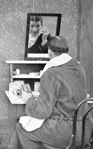 James J. Corbett preparing for the day's work.